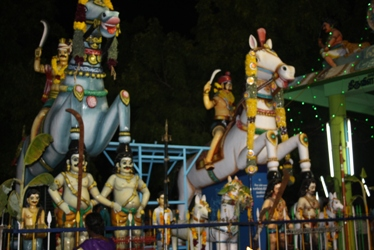 Nalli singamadaiayyanar temple நள்ளி சிங்கமடை அய்யனார் கோயில்